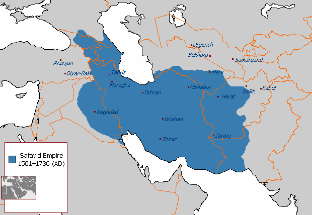 The maximum extent of the Safavid Empire under Shah Abbas I.